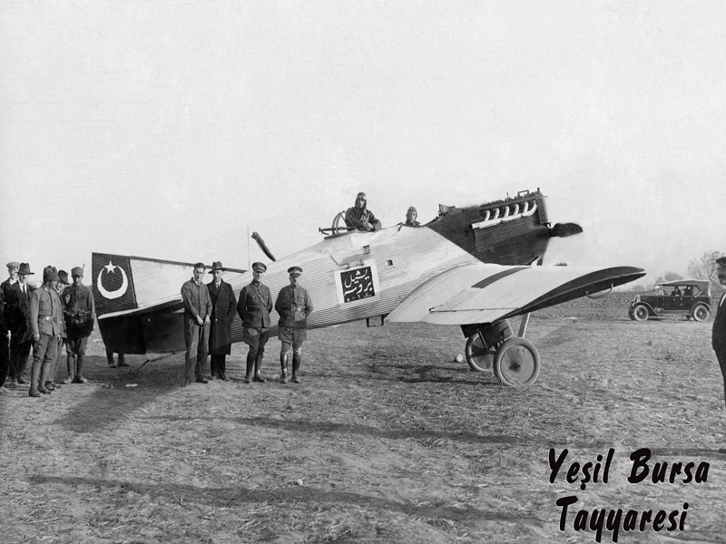 Junkers A-20 "Yeşil Bursa"